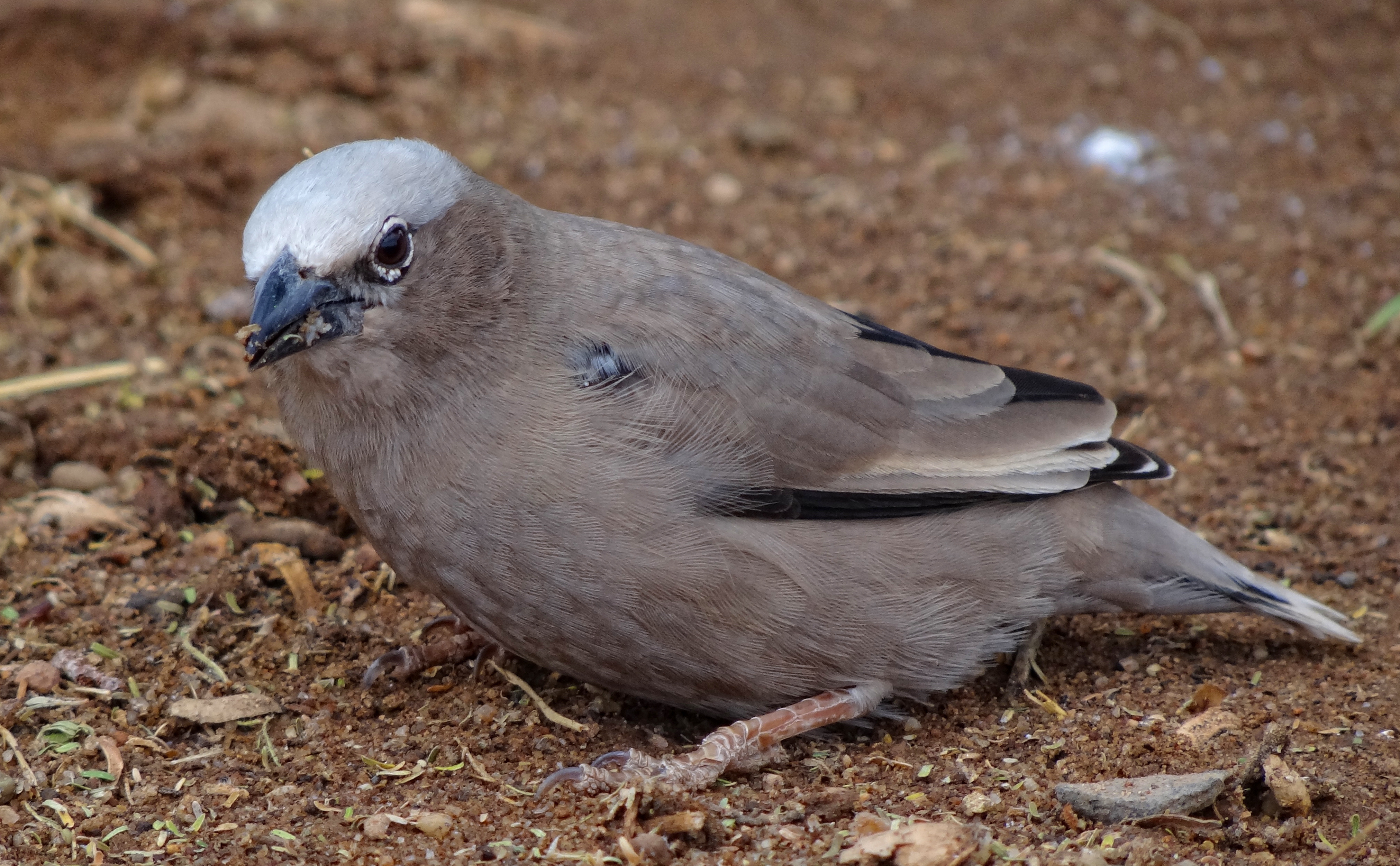 A Grey-capped Social Weaver photographed in Amboseli National Park, Kenya.